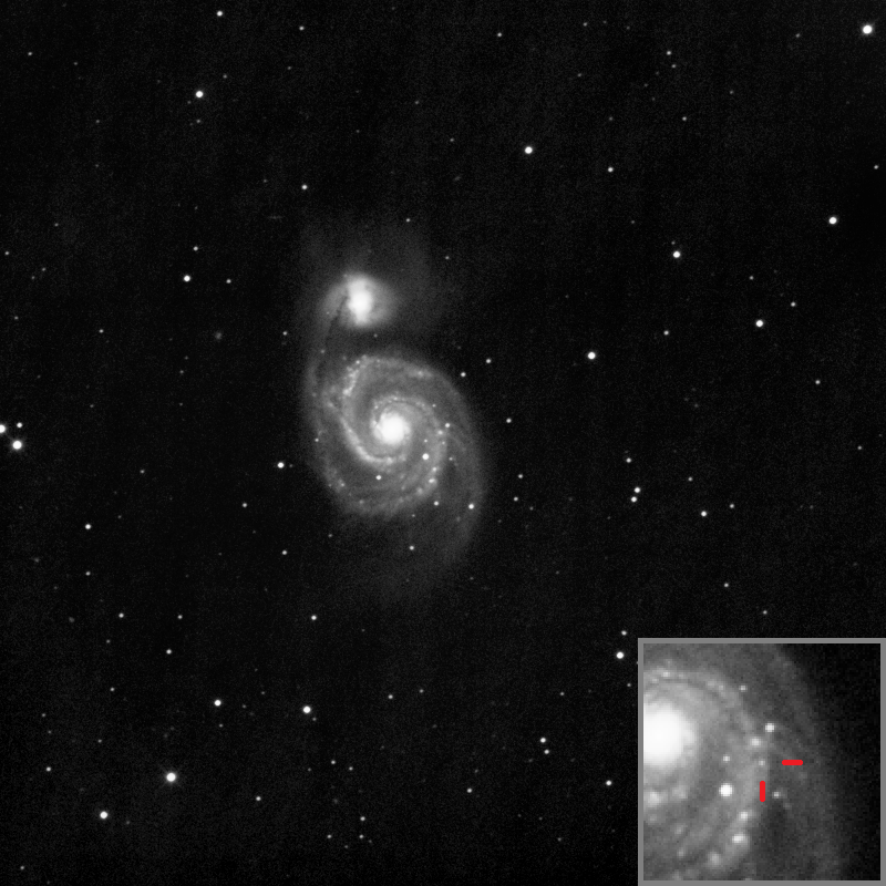 An Intermediate Luminosity Red Transient in Messier 51, discovered by ATLAS on 22 January 2019. Image taken on 13 March 2020, with the observatories' 0.25-m f/8 Ritchey-Chrétien telescope and QHY42 CMOS camera. Total exposure time 20 minutes.